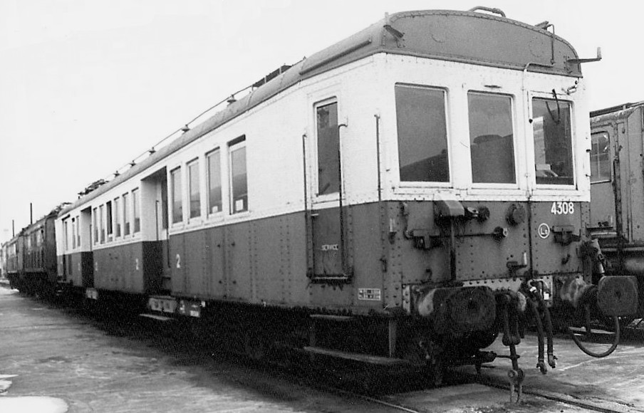 Automotrice Z 4308 ex Midi, à Vierzon.